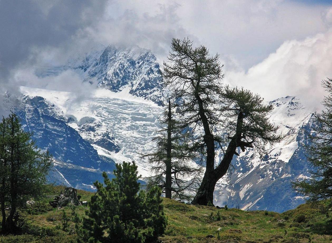 View of the Ried Glacier from Moosalp (above Törbel, 2000 metres)